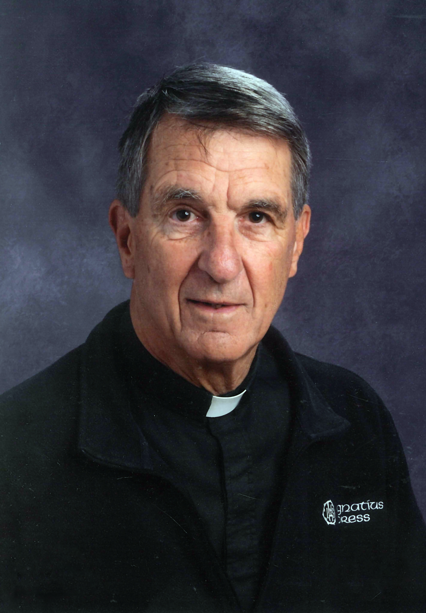 Photo of Fr. Joseph Fessio